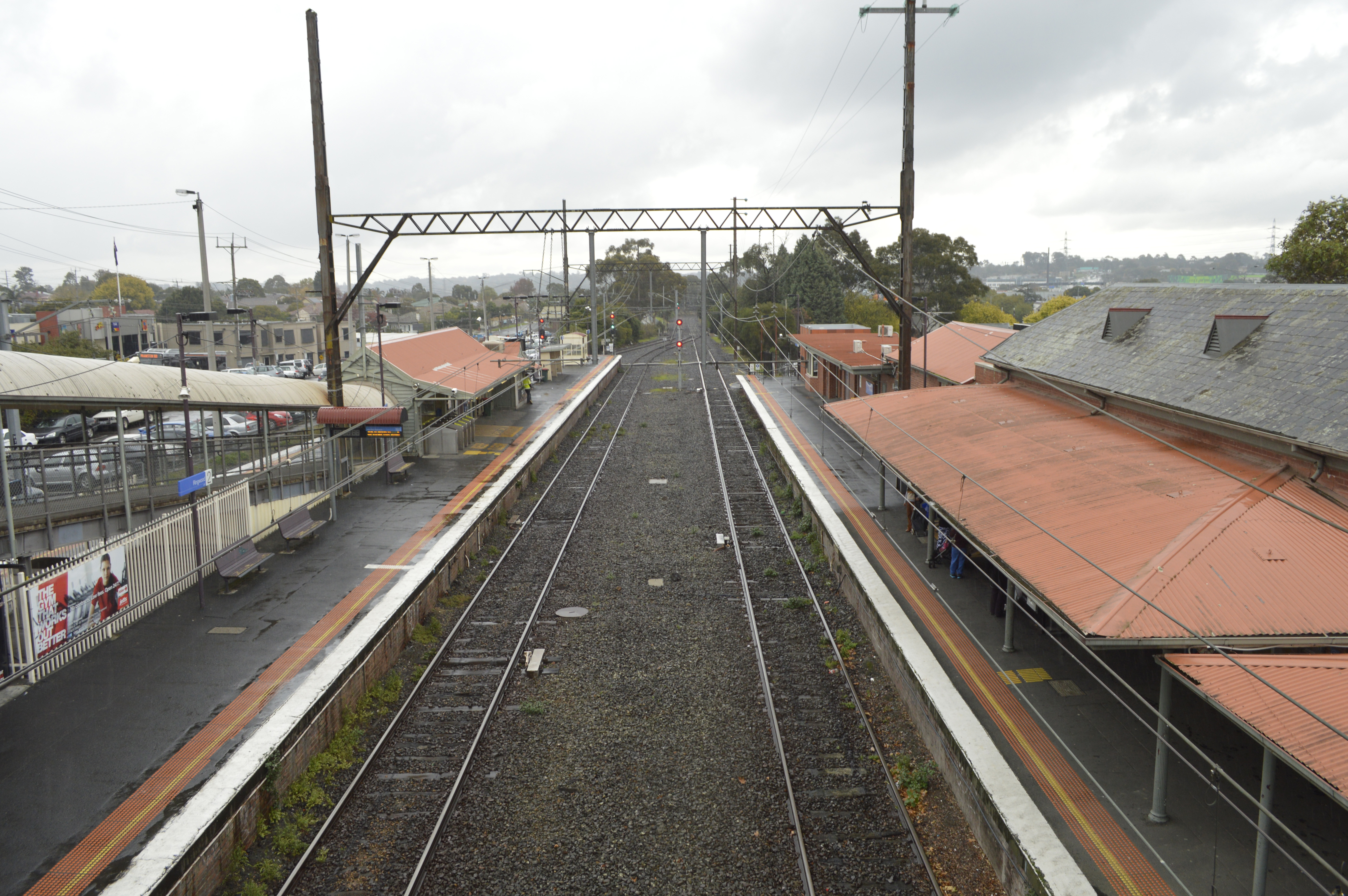 View from the footbridge.